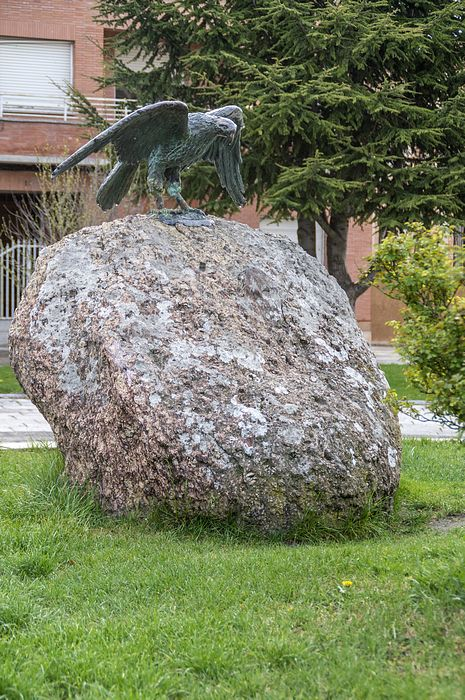 Estatua de águila